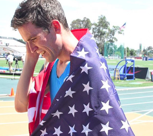 Johnny after he made worlds in 2017